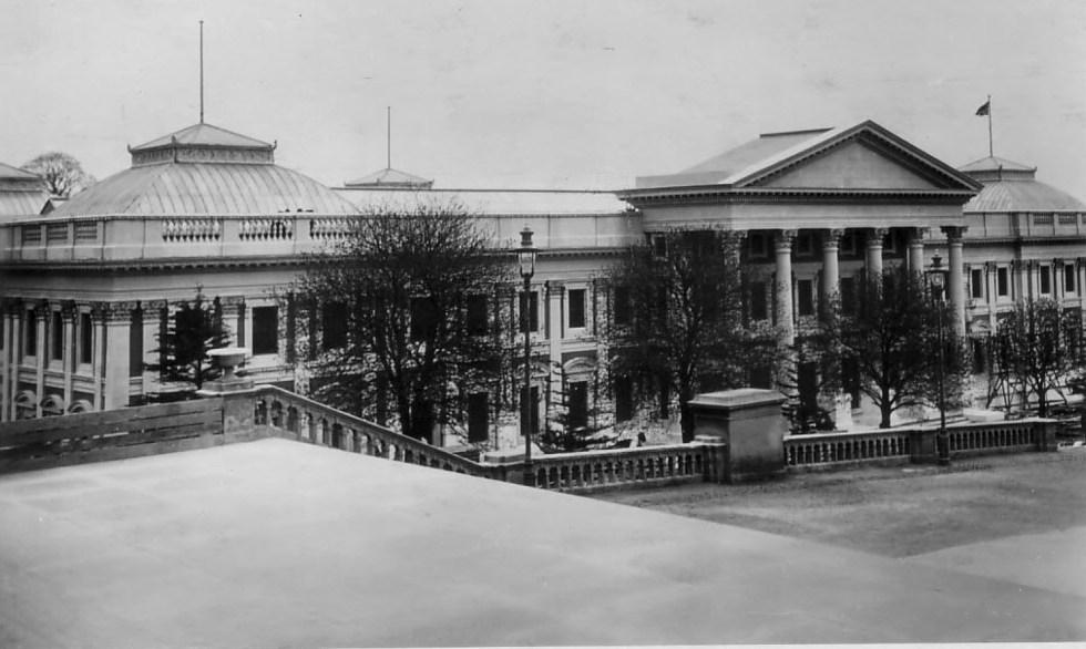 Festival of Empire at the Crystal Palace in South London. 1911 A replica of the South African parliament building